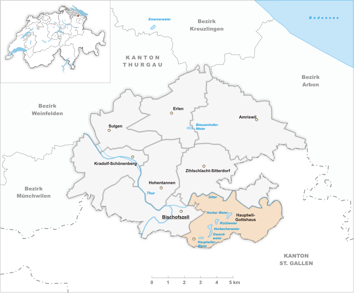 Municipality Hauptwil-Gottshaus